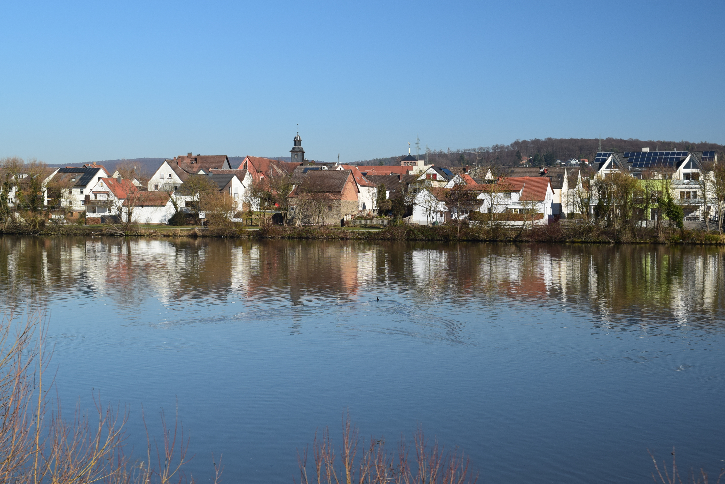 Kleinostheim, round shaped tower of former Laurentius church